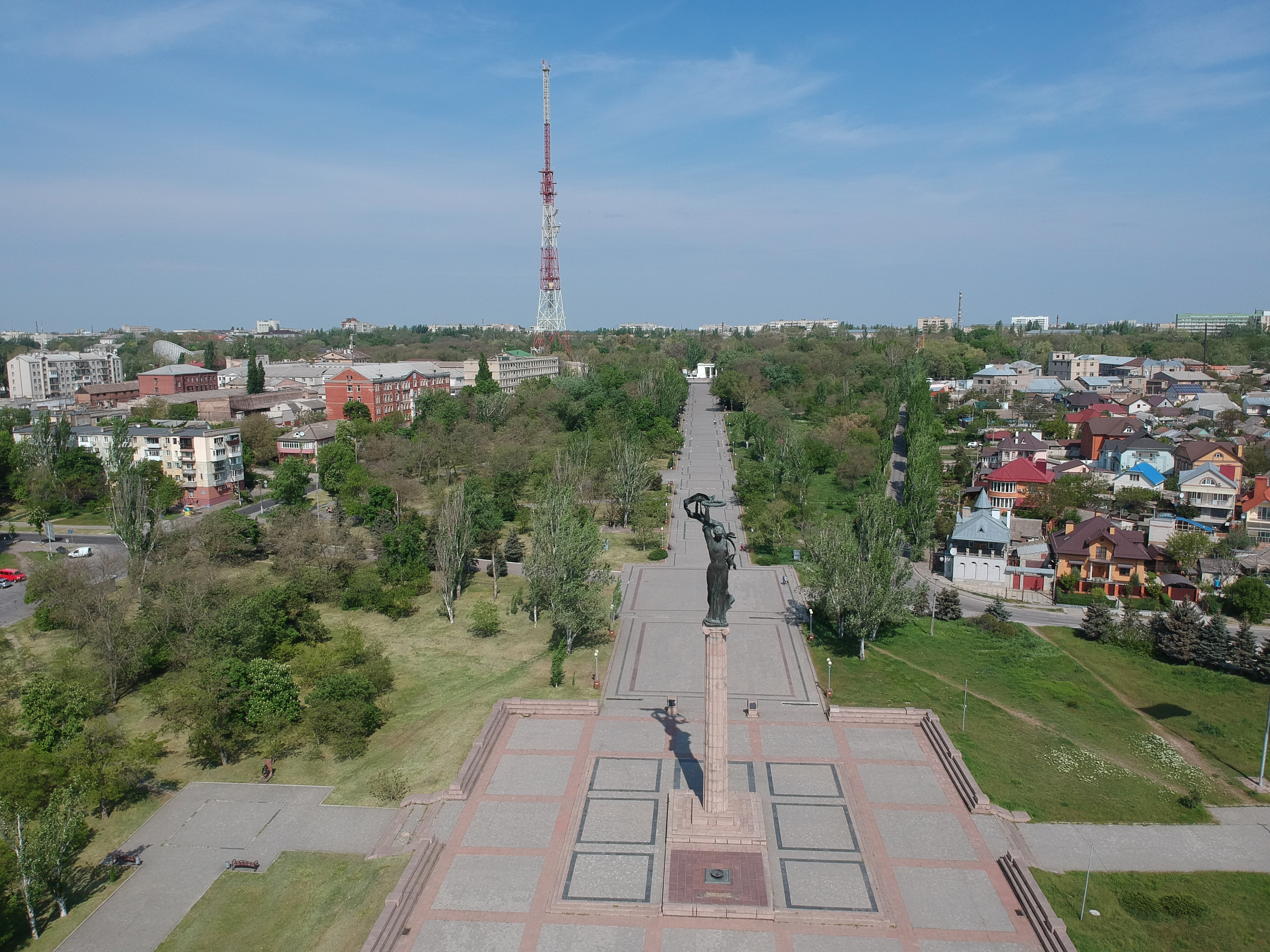 Victory Monument in the Glory Park in Kherson